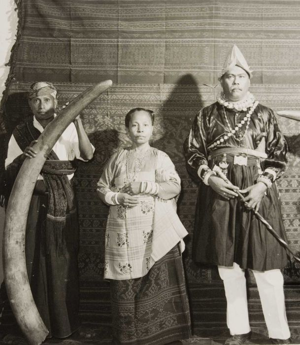 Portrait of Don Jozef Thomas Ximenes da Silva, Raja of Sikka